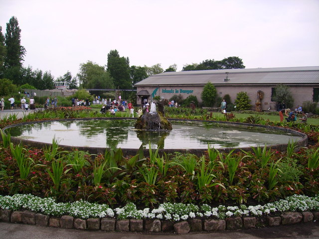 Fountain Chester Zoo